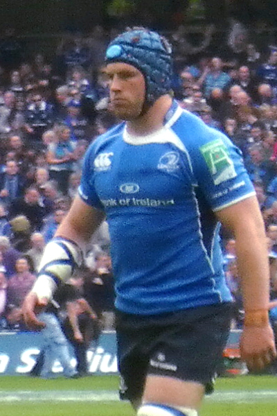 Sean O'Brien in the 2011 Heineken Cup quarter final